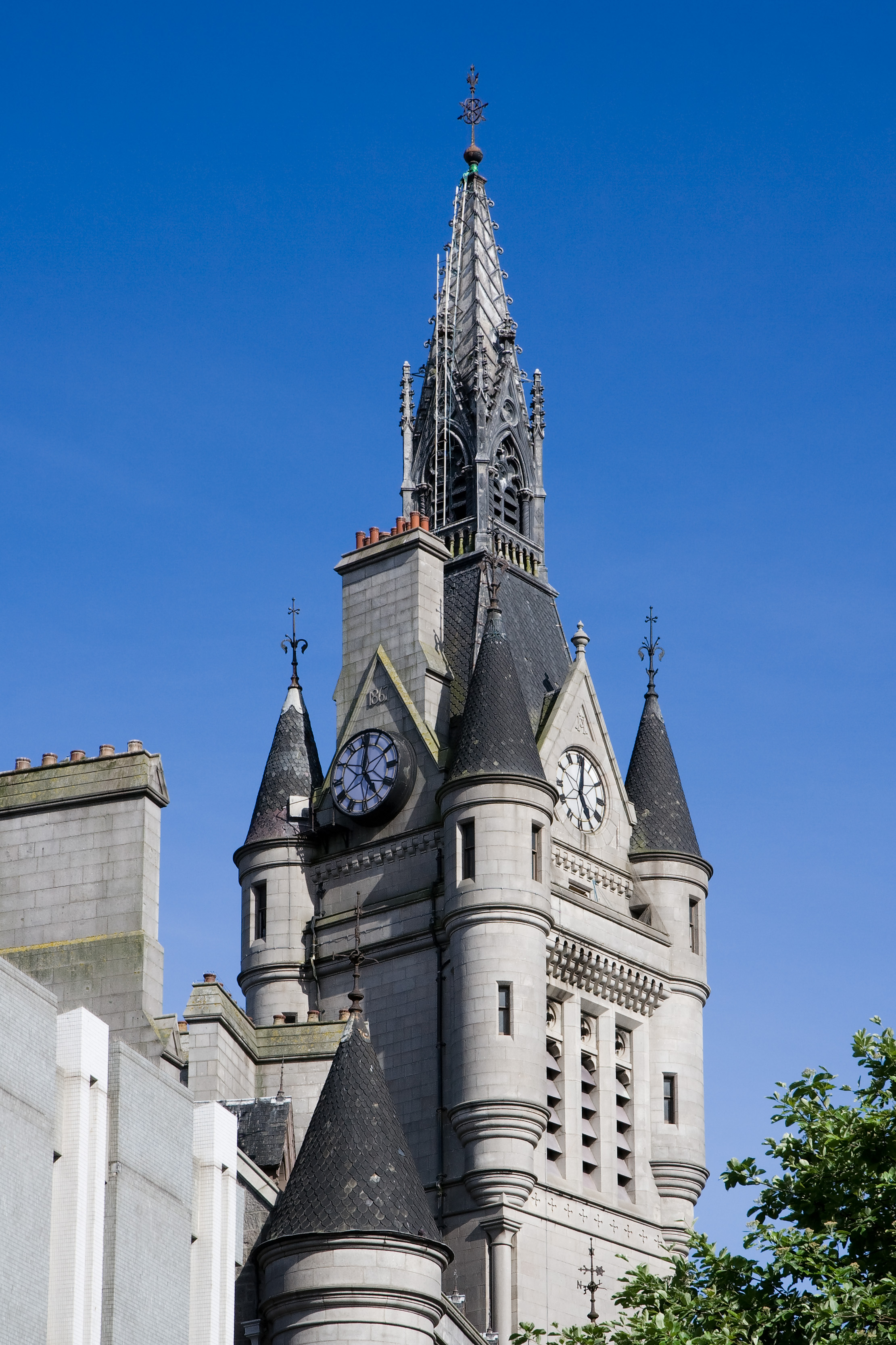 Town house clock tower in Aberdeen, Scotland